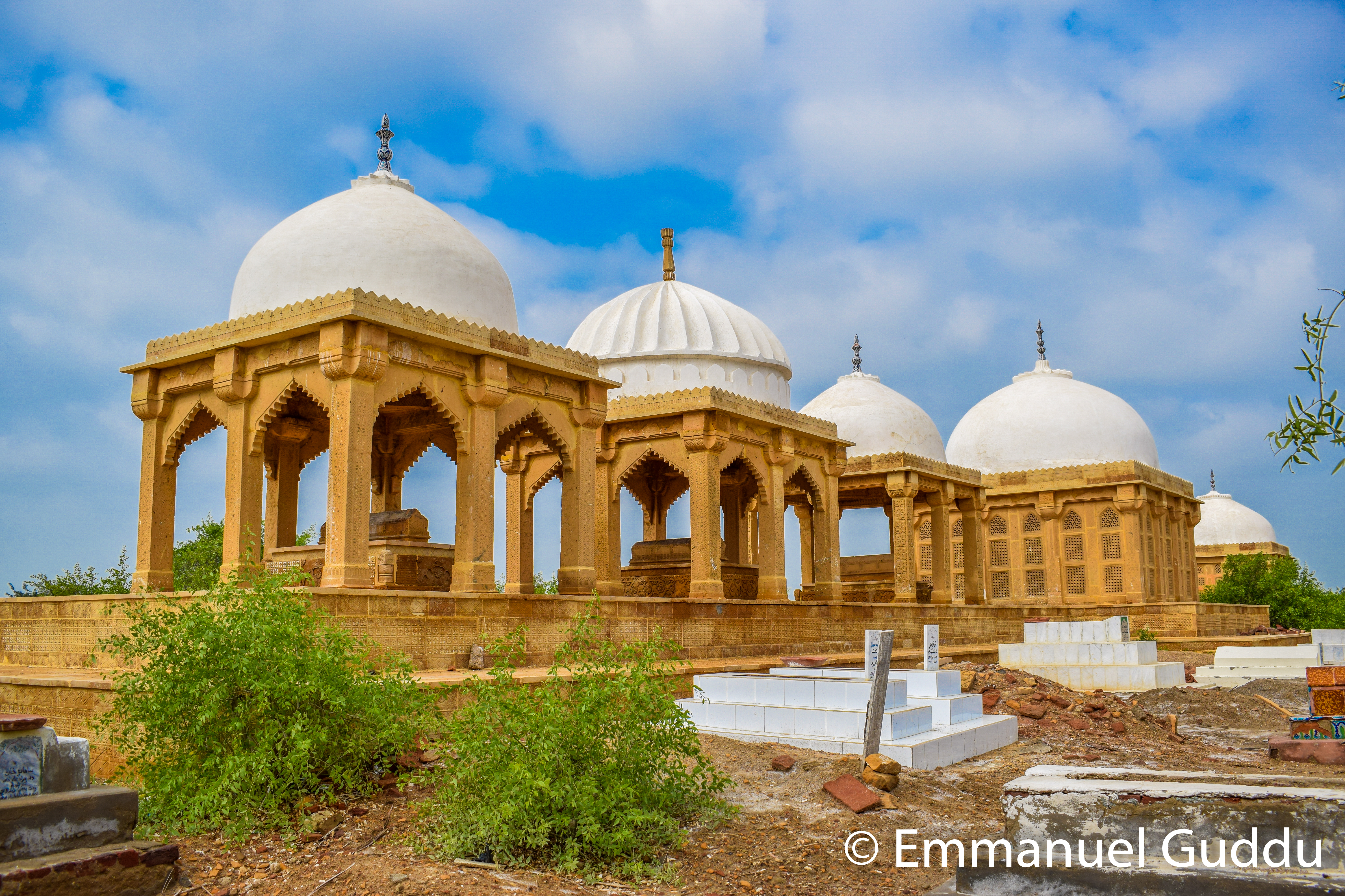 Other tombs of the ruler of Mirpur Khas in Chitorri Graveyard This is a photo of a monument in Pakistan identified as the Chittori Tombs